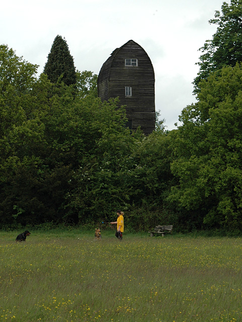 Photograph of Tadworth windmill